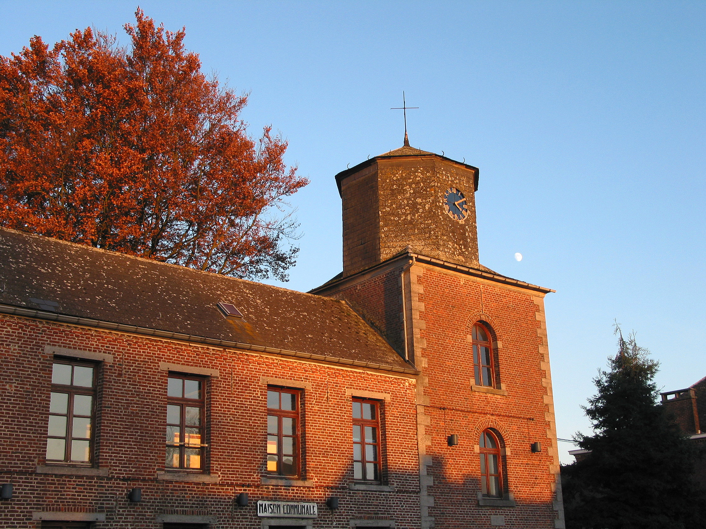 Thieusies (Belgium), the common house.